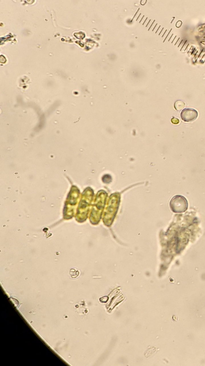 Diatomea vista en microscópico óptico a 40x